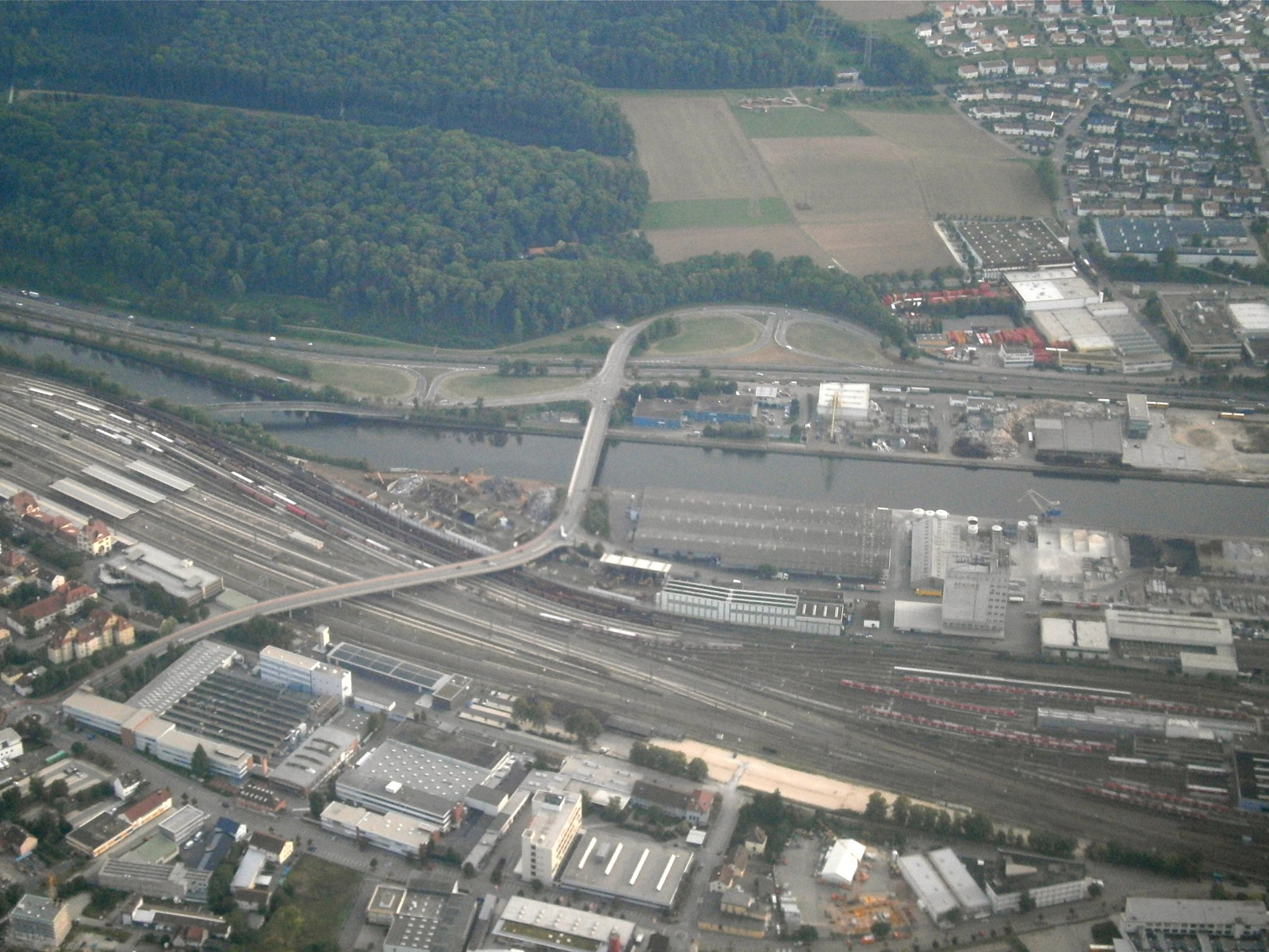 Plochingen, Baden-Wurttemberg, southern Germany